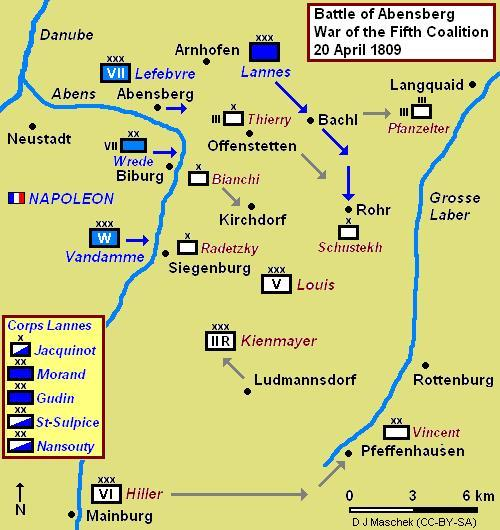 Map of the Battle of Abensberg, 20 April 1809